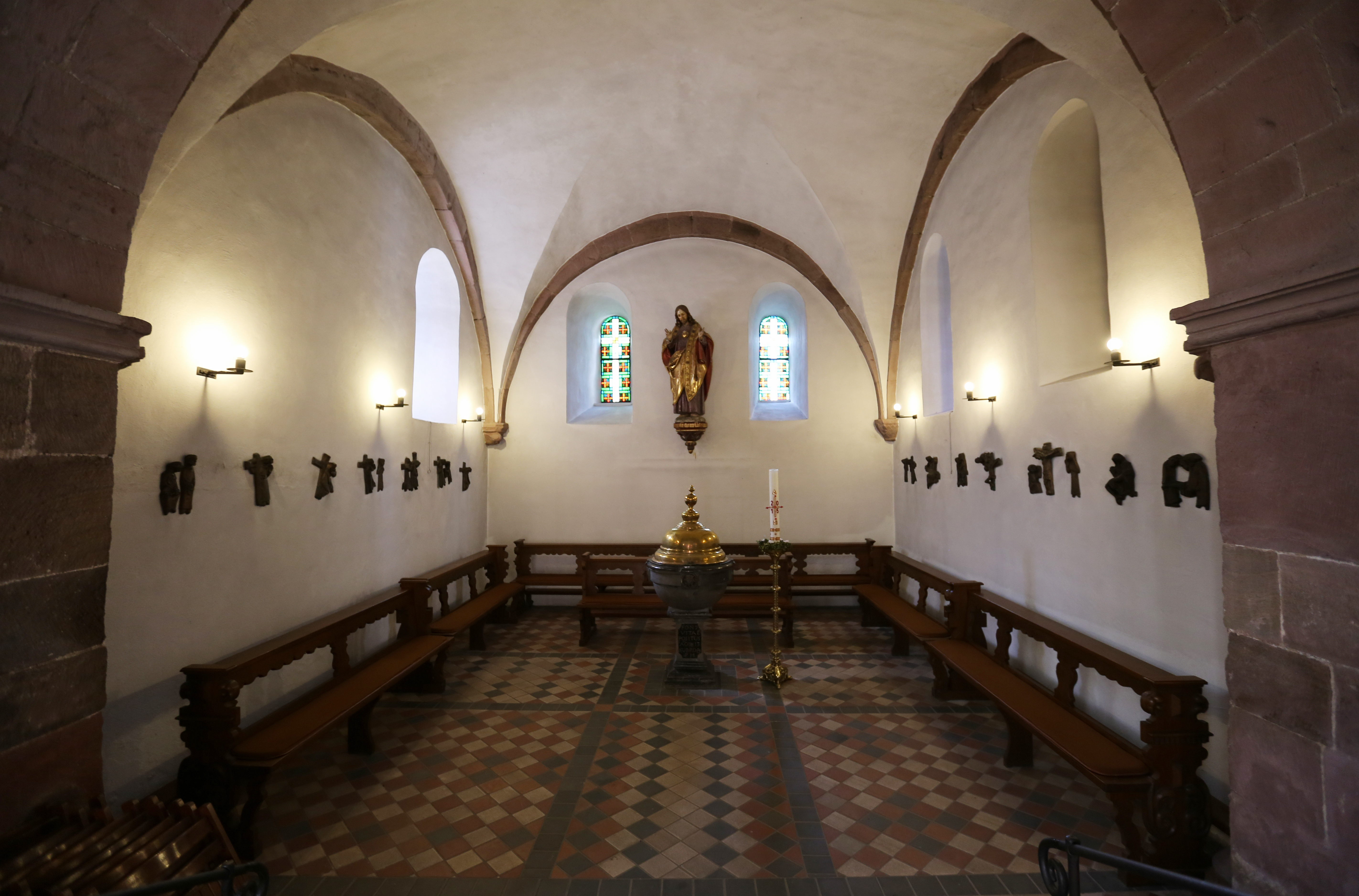 Inside the medieval church of St. Viktor, Hochkirchen, a quarter of Nörvenich, Germany